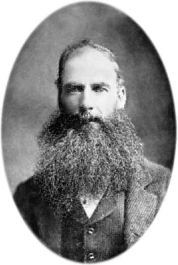 William Ellis (1794–1872) was an English missionary and author. He traveled through the Society Islands, Hawaiian Islands and Madagascar, and wrote several books describing his experiences.